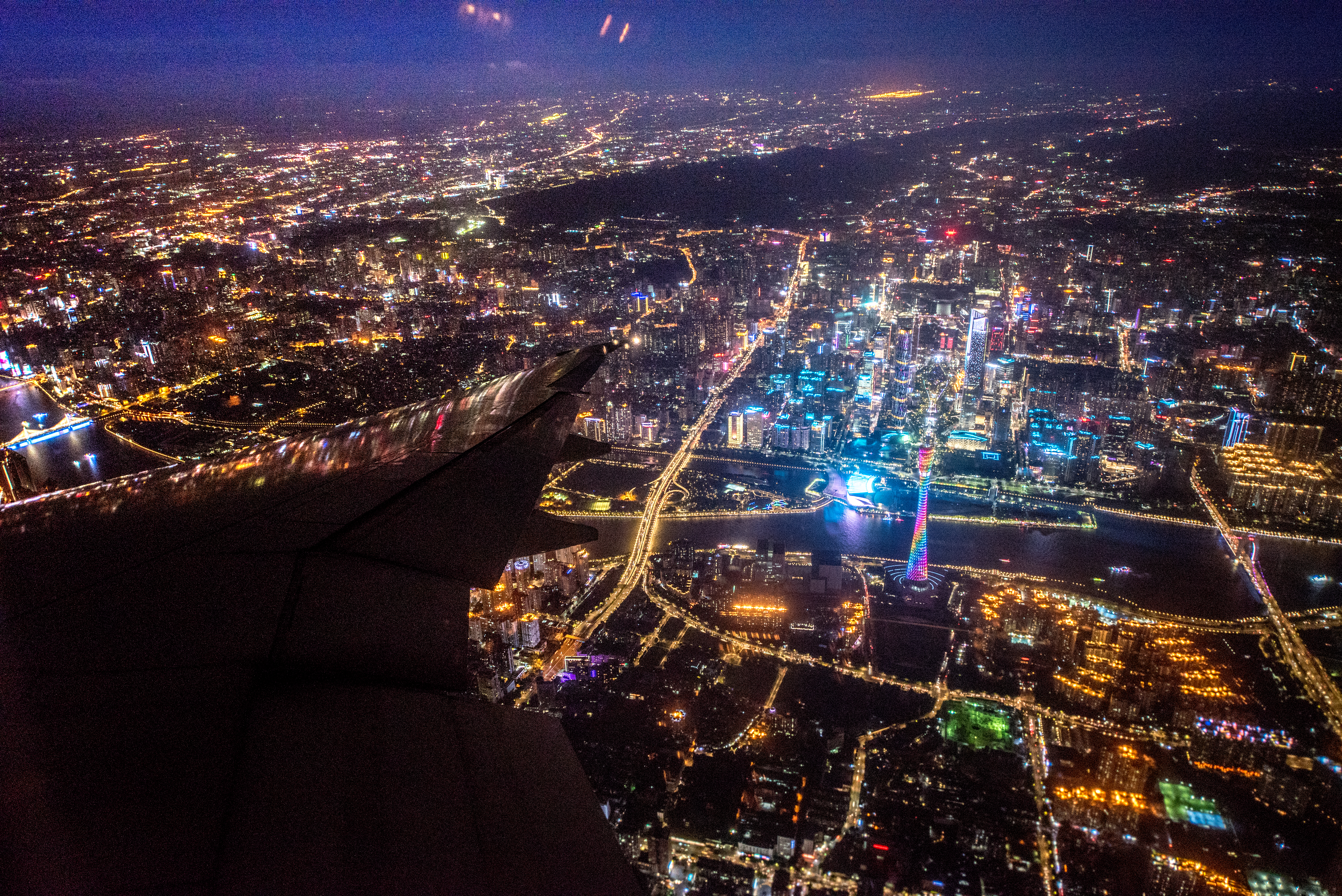 Looking at the CBD of Guangzhou (Canton), from a Boeing 77W. The aircraft was turning onto the final of RWY02L of Baiyun airport (CAN/ZGGG).